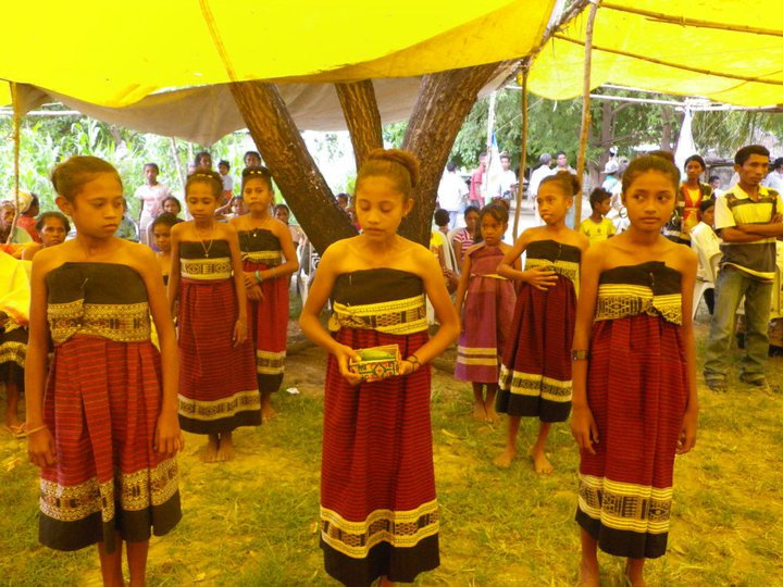 The children perform traditional dance in Matai VillageTetun: Labarik sira hatudu Bidu iha suku Matai